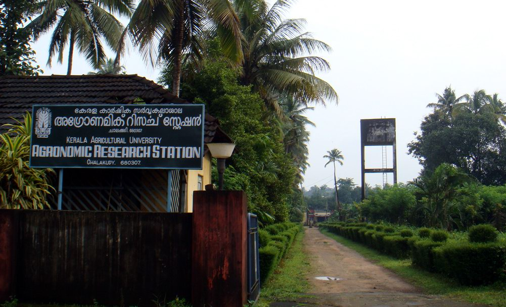 agromomic research station chalakkudi